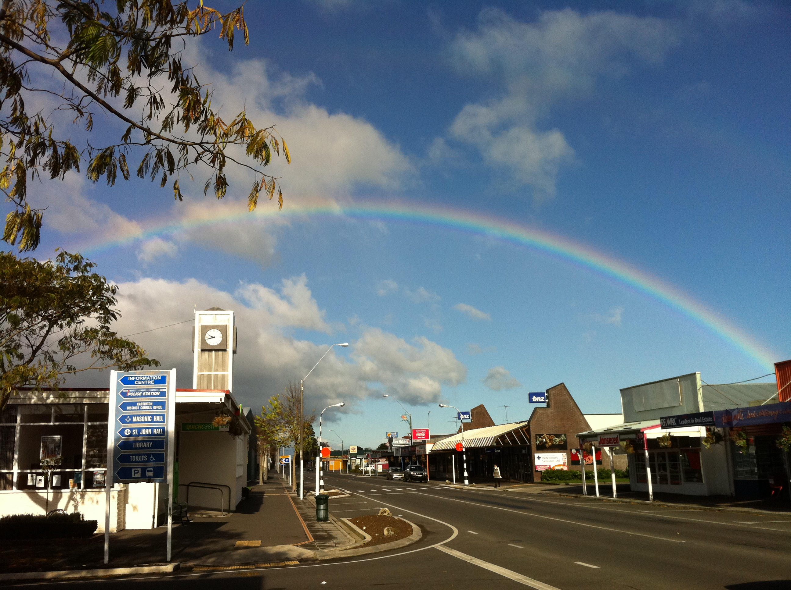 Centre of the Universe